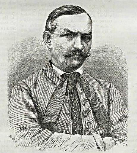 Portrait of the educator István Szilágyi